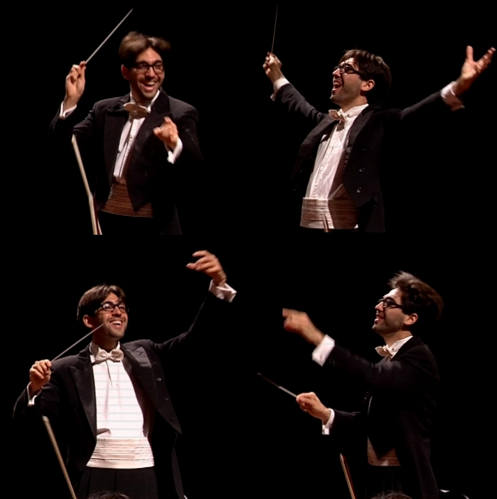 Daniel Cohen conducts at the Teatro Petruzzelli 2012